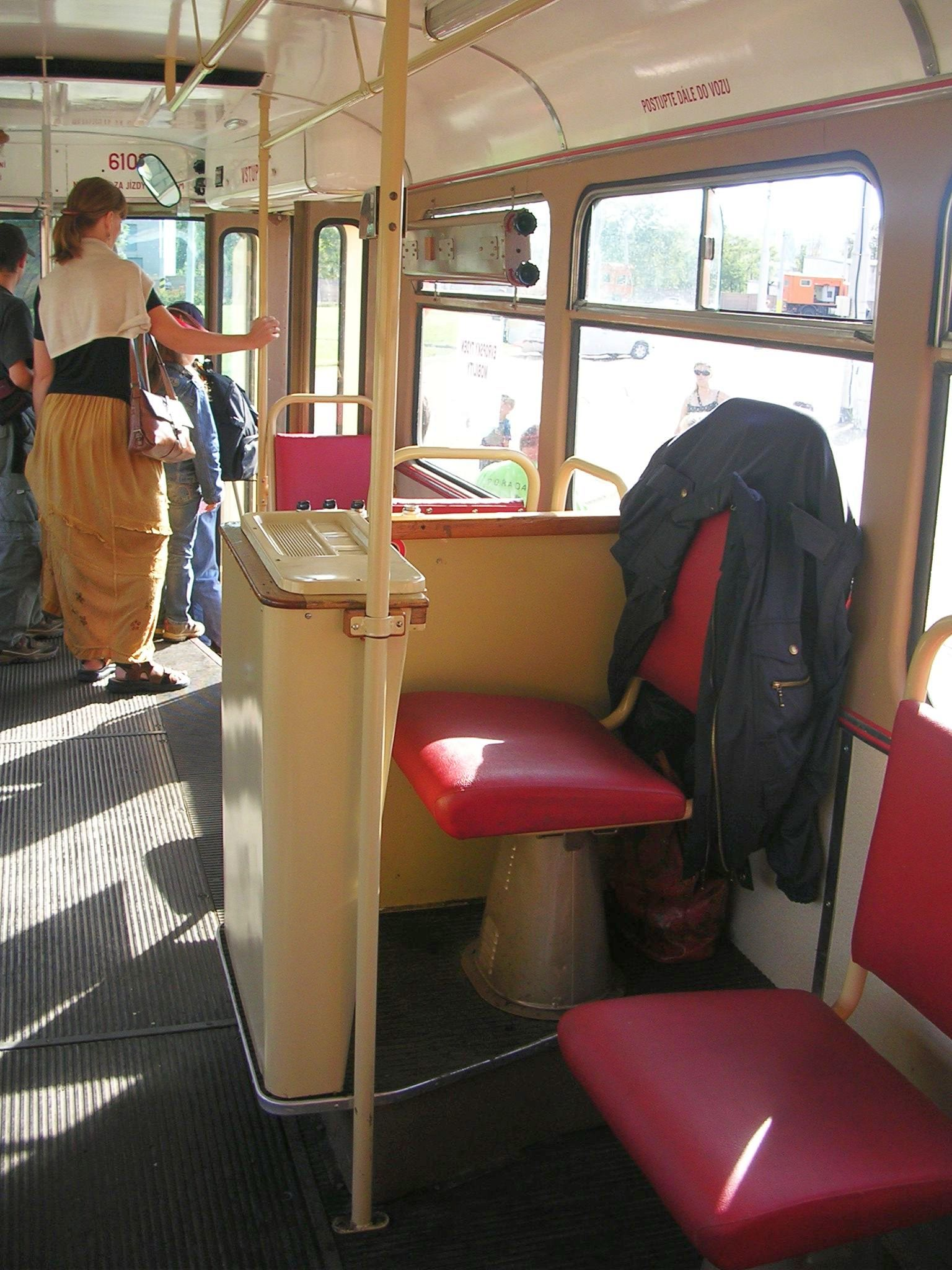 A place for a tram conductor (ticket seller). Tram T3 in original historic design. Visiting day in the tram depot Prague-Hloubětín, Czech Republic.